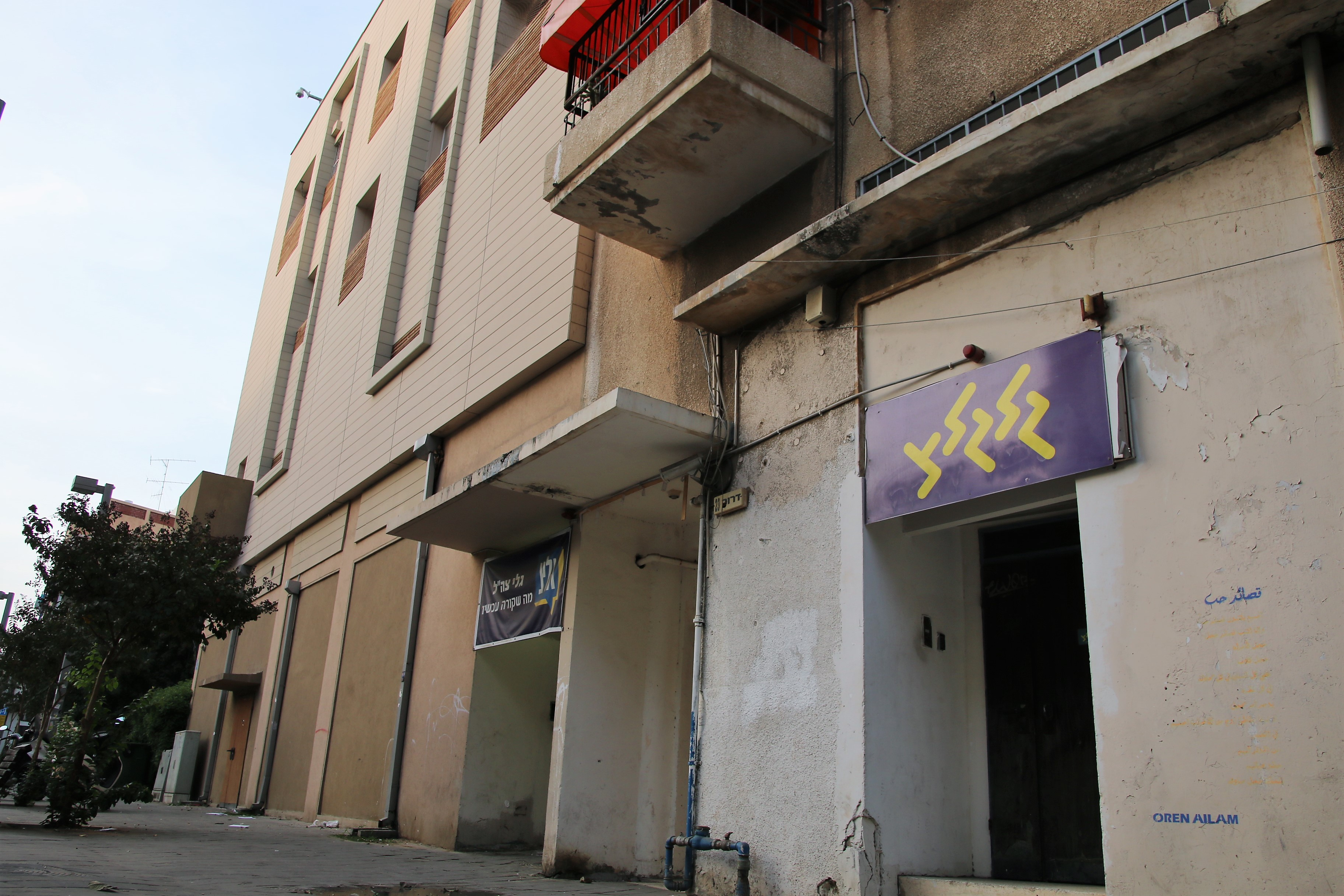 The historical Galei Tzahal building in Jaffa